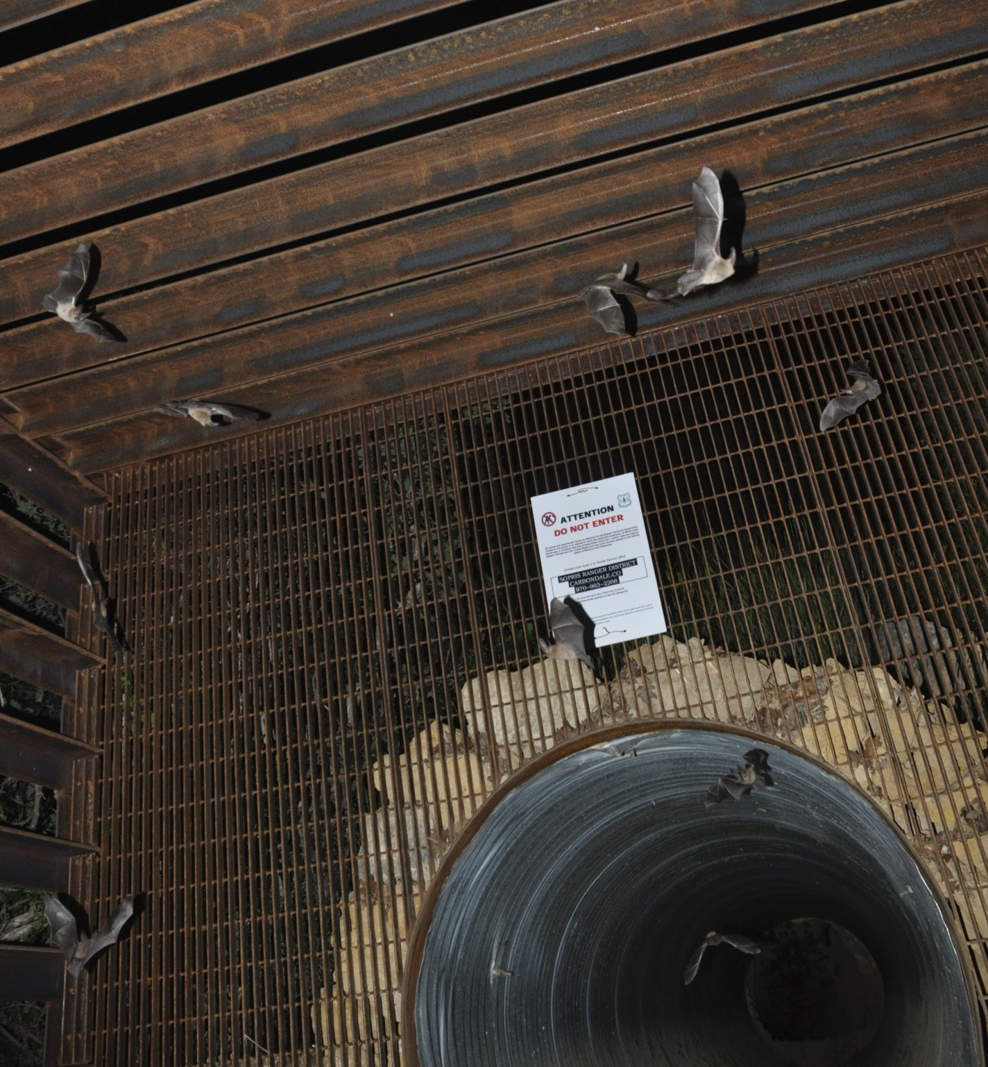 Townsend's big-eared bats exiting maternity colony site (mine) near Marble, CO photo credit: Ann Froschauer/USFWS